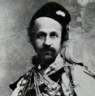 Portrait photo of painter Theophilos Hatzimichael, 1900